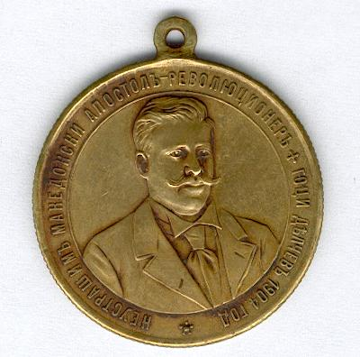 Medal Commemorative of Gotse Delchev, issued in 1904 in Bulgaria, on behalf of the Internal Macedonian Revolutionary Organisation. Circular bronze medal with loop for ribbon suspension; The face with a head and shoulders portrait of Gotse Delchev facing right circumscribed; (The fearless macedonian apostle, Gotse Delchev, 1904); The reverse (see other versions) with, on the right, a seated female figure representative of Macedonia, her right arm raised in supplication, a broken chain hanging from her wrist, a shield bearing the arms of Macedonia to her left, and, to the left, a standing female figure representative of Bulgaria, a shield bearing the arms of Bulgaria held in her right hand, her left arm raised, holding a shield to protect ‘Macedonia’, signed Dimitar Diolev from Kalofer and circumscribed (Bulgaria preserve the freedom of Macedonia); ribbon lacking. The medal was issued by the IMRO in 1904 to commemorate its leader, Gotse Delchev (1872-1903), who had been killed in a skirmish with Ottoman Turkish police on 4 May 1903.